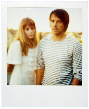 Chicago based Indie band L'Altra